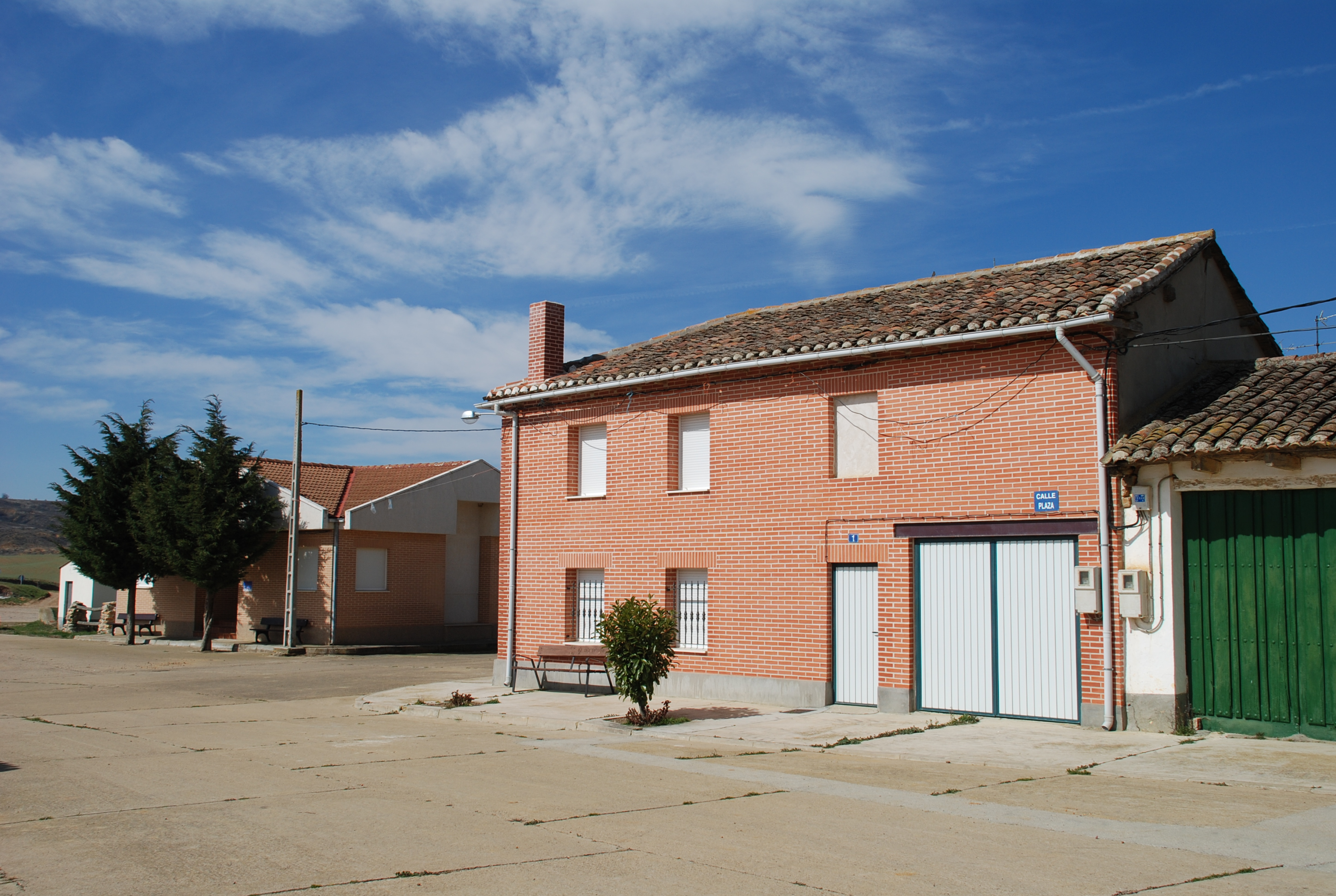 View of Villabasta de Valdavia (Palencia, Castile and León).